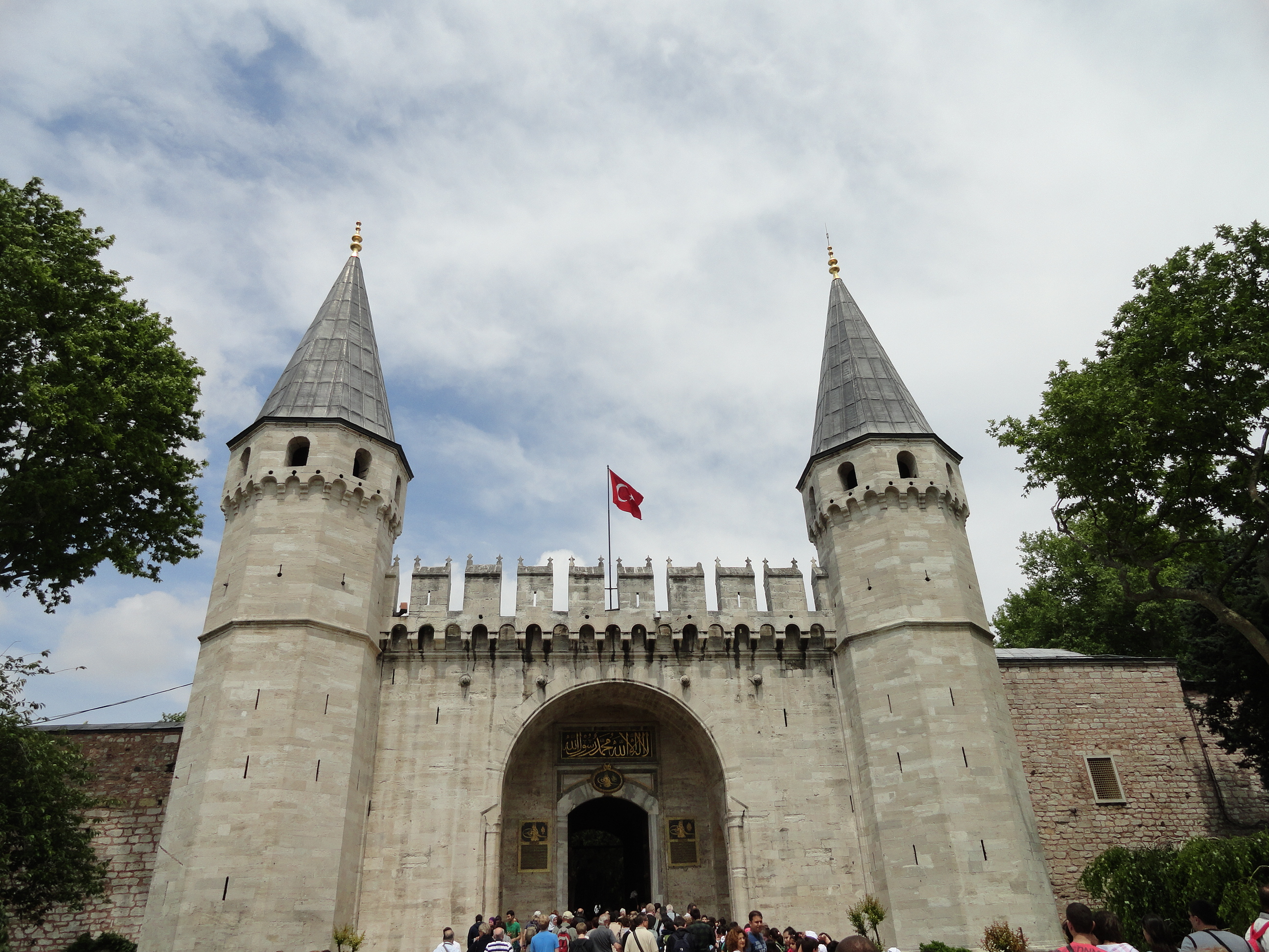 Topkapi Palace (Topkapı Sarayı in Turkish) is a huge palace in Istanbul, Turkey. It was a sultans' residence for 400 years. Sultan Mehmed II ordered its construction in 1459. Check out our blog at